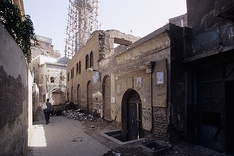 Façade the synagogue of Moses Maimonides (Moses ben-Maimon) before its renovation in 2010, Jewish quarter, el-Muski, Cairo, Egypt